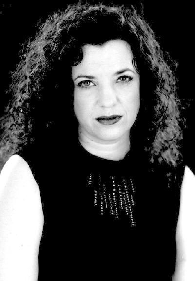 American author and sex therapist Gloria Brame.